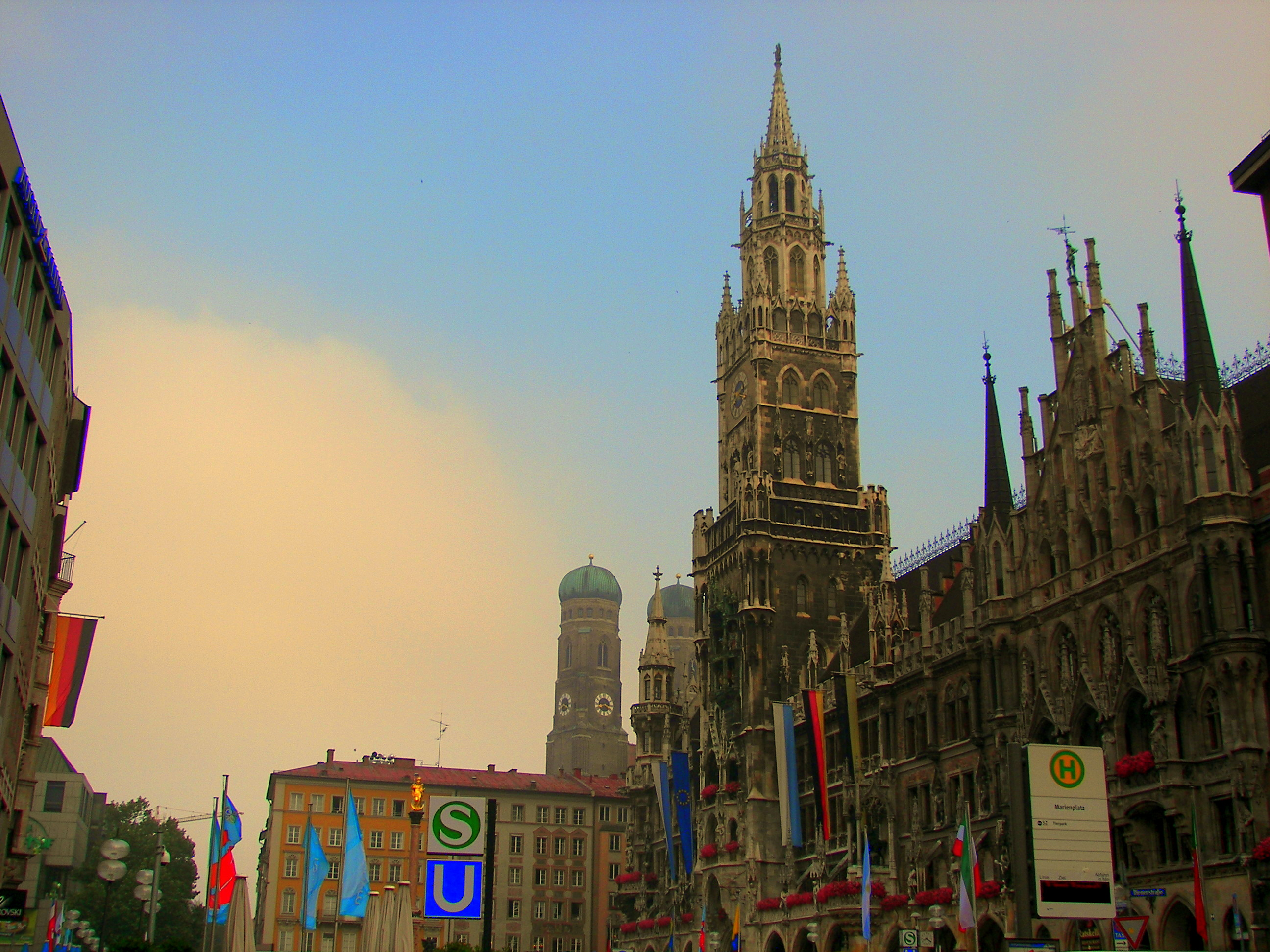 View of Rathaus and Frauenkirche from Marienplatz, Munich